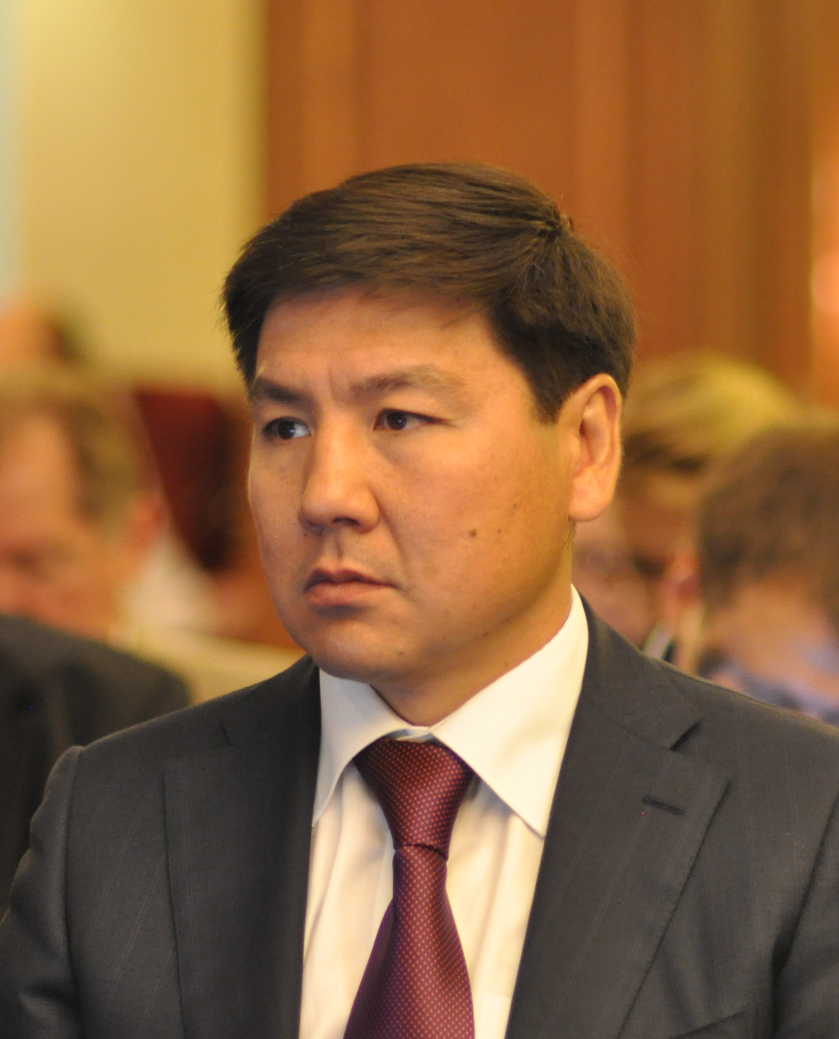 Emiliàn e rumagnòl: Minister of Communications of Kazakhstan Askar Zhumagaliev